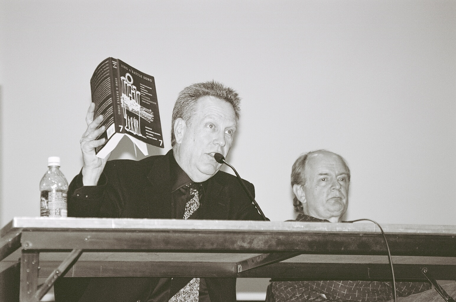 Former Weather Underground member Jeff Jones speaking at City University of New York (CUNY) in 2007. Jones was helping to promote Harvey Pekar's graphic history of Students for a Democratic Society (SDS).